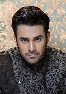 Sajid shahid Clicked Actor Pearl V Puri in Delhi.